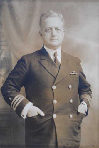 Rear Admiral Benjamin H. Dorsey (1877-1962)(public file)